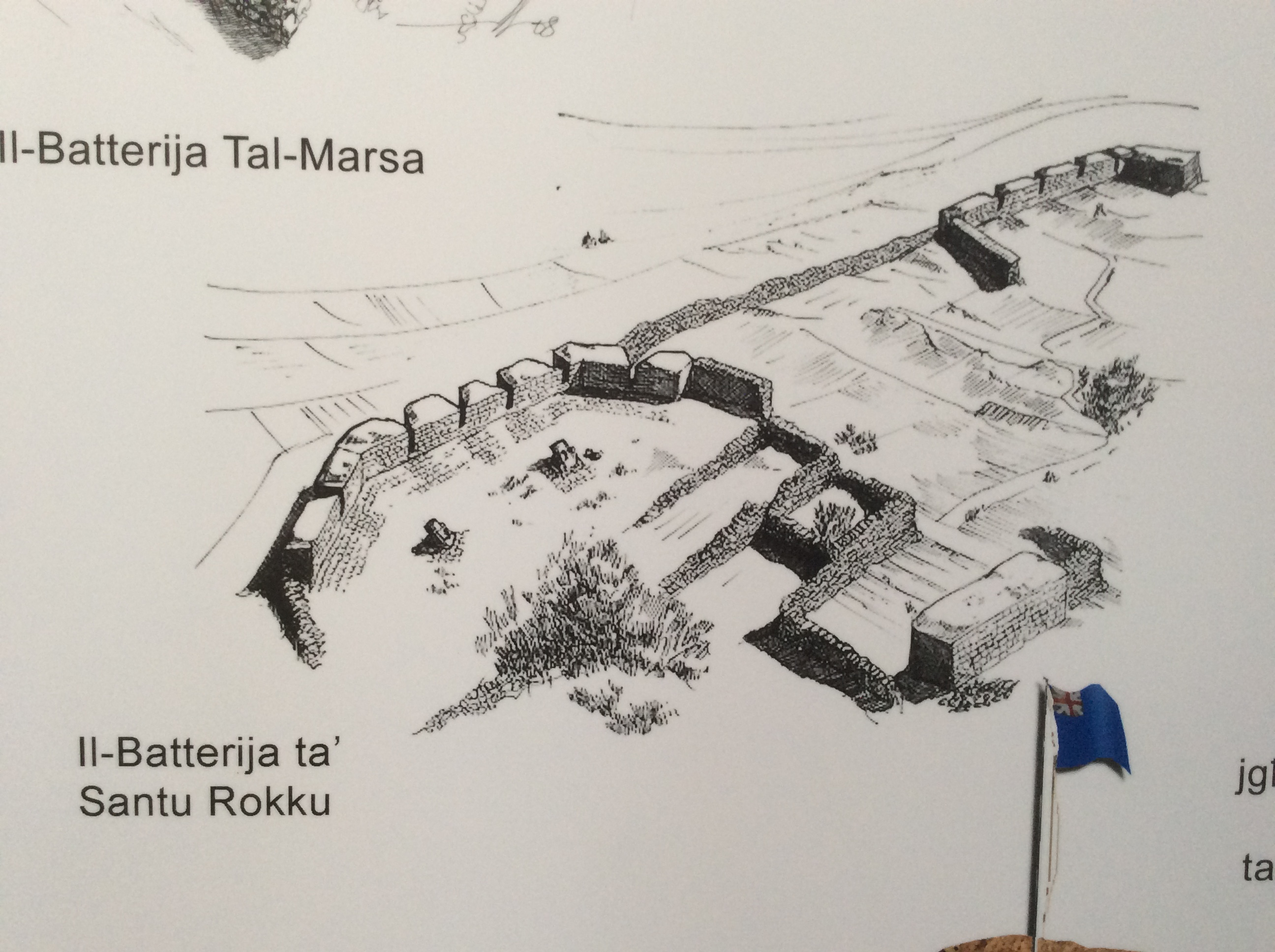 Valletta